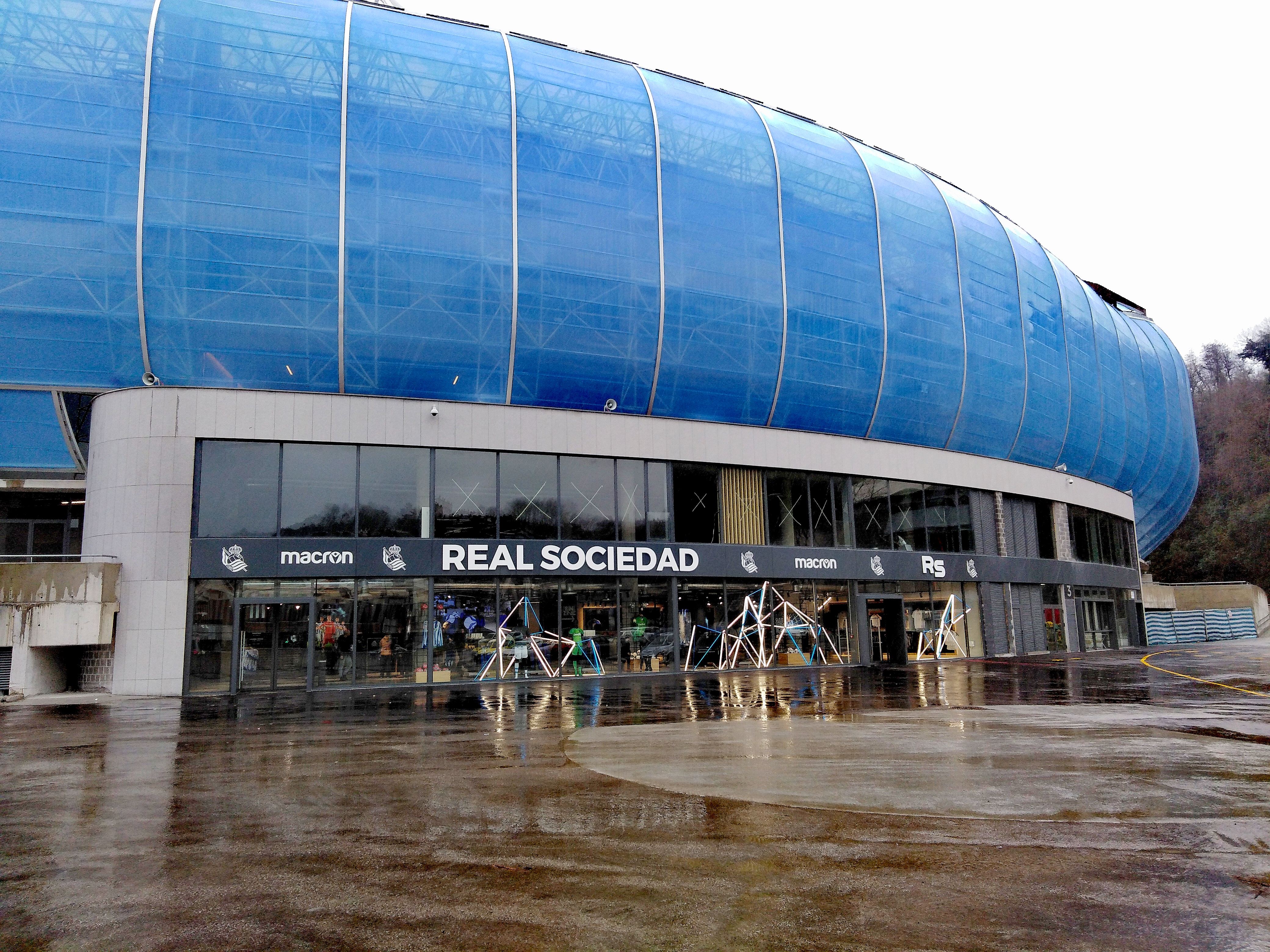 Real Sociedad store, Anoeta stadium, Donostia-San Sebastian, Gipuzkoa, Basque Country